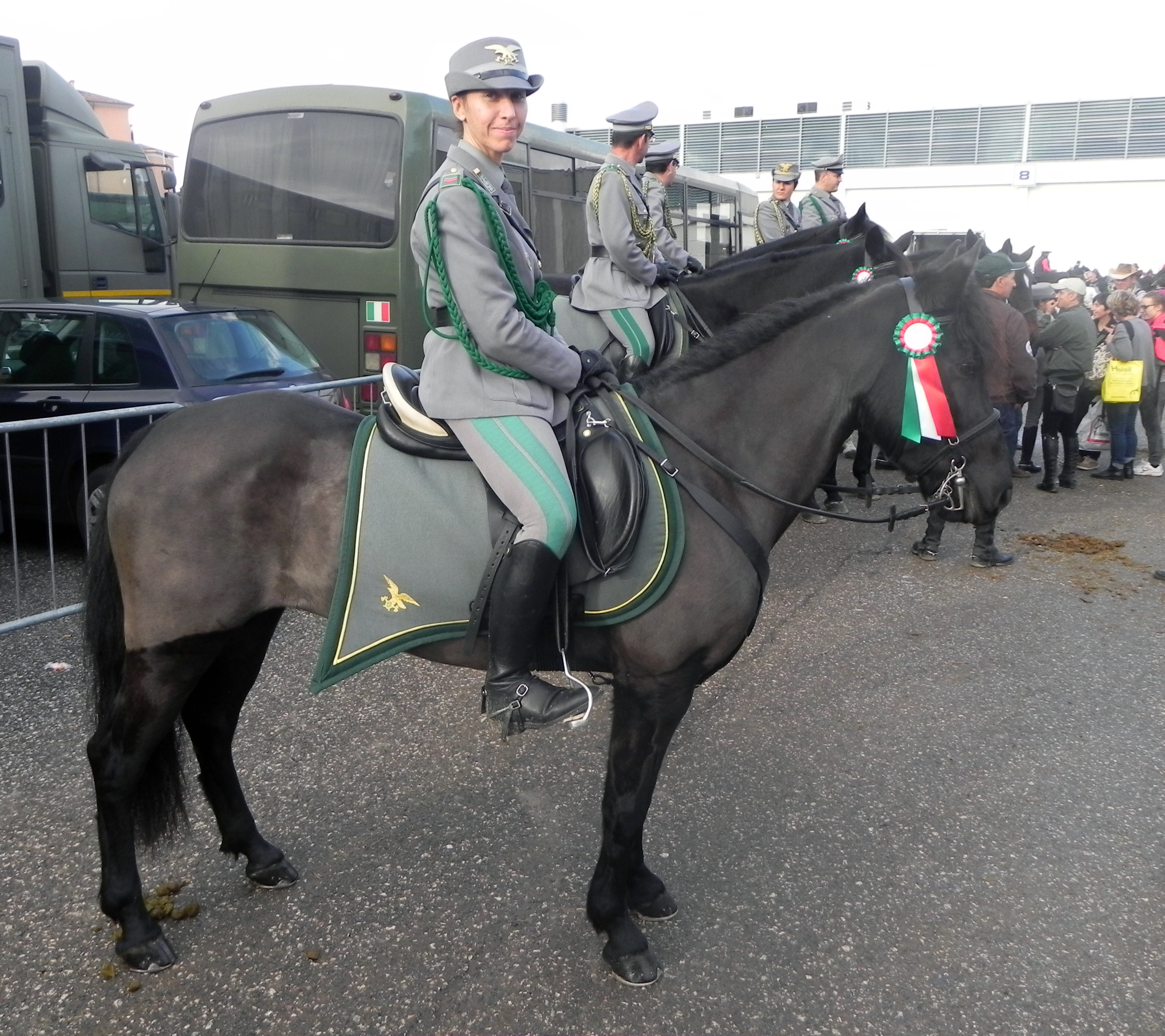 Monterufolino (Cavallino di Monterufoli) of the Corpo Forestale dello Stato, photographed at Fieracavalli, Verona, Italy, on 9 November 2014.